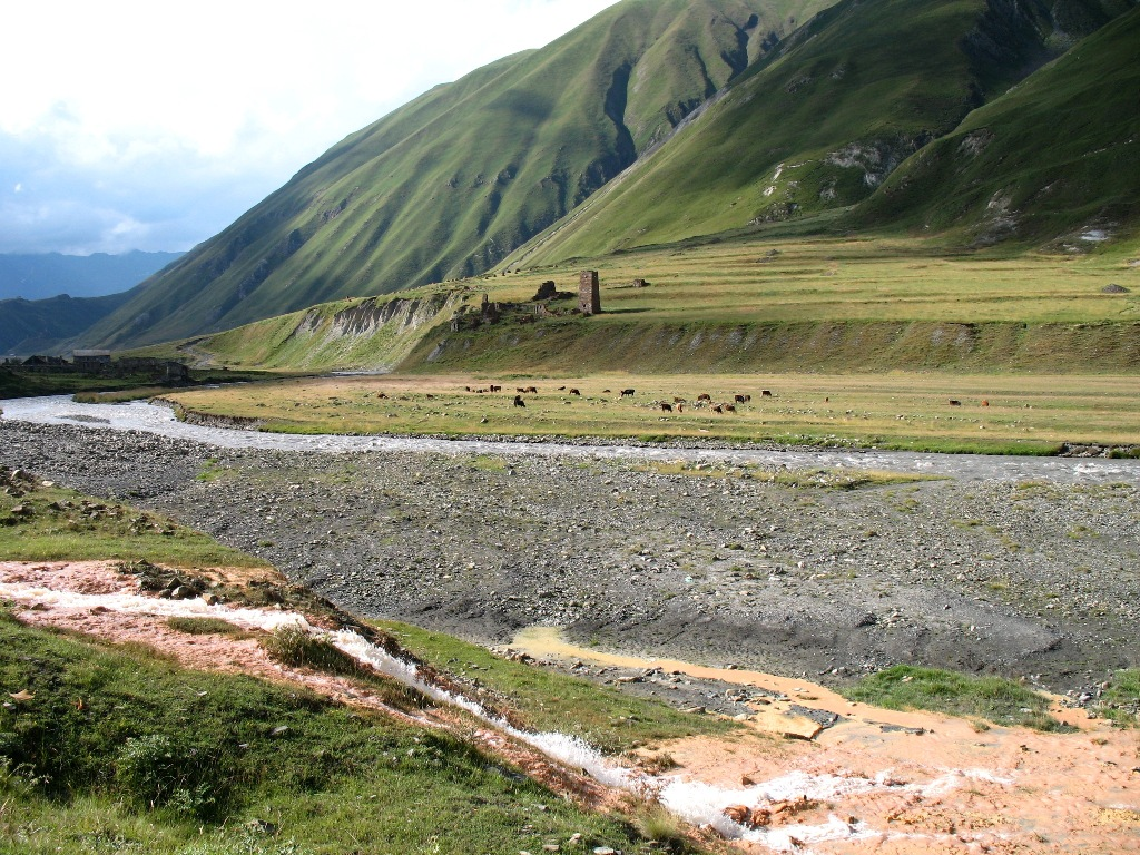 Truso valley